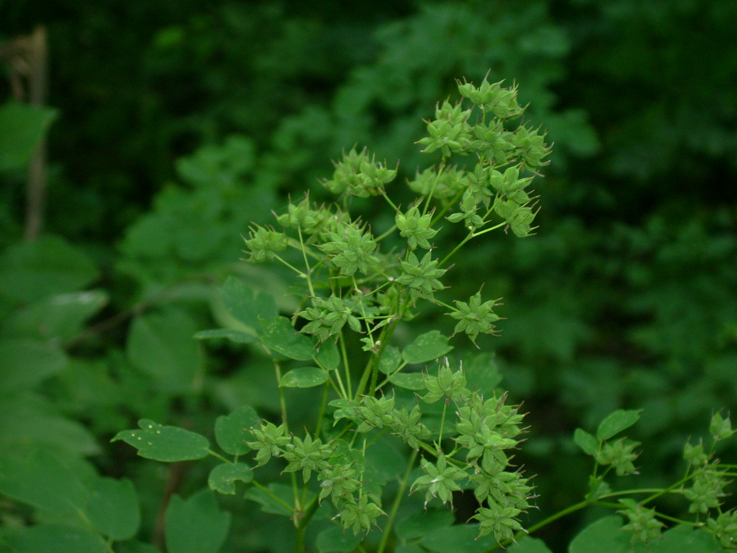 Tall meadow-rue (Thalictrum pubescens), Whitefish Island, Batchewana First Nation